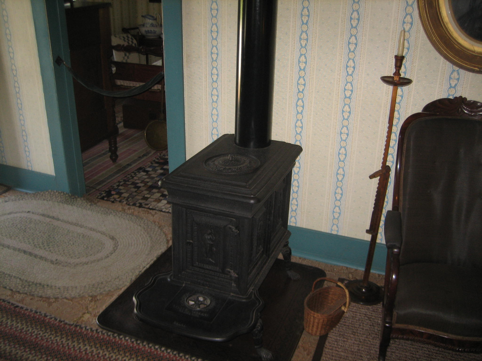 John Deere House, interior, main living room, wood-burning stoves. John Deere Historic Site (John Deere House & Shop) - Grand Detour, Illinois, United States. U.S. National Register of Historic Places, U.S. National Historic Landmark.